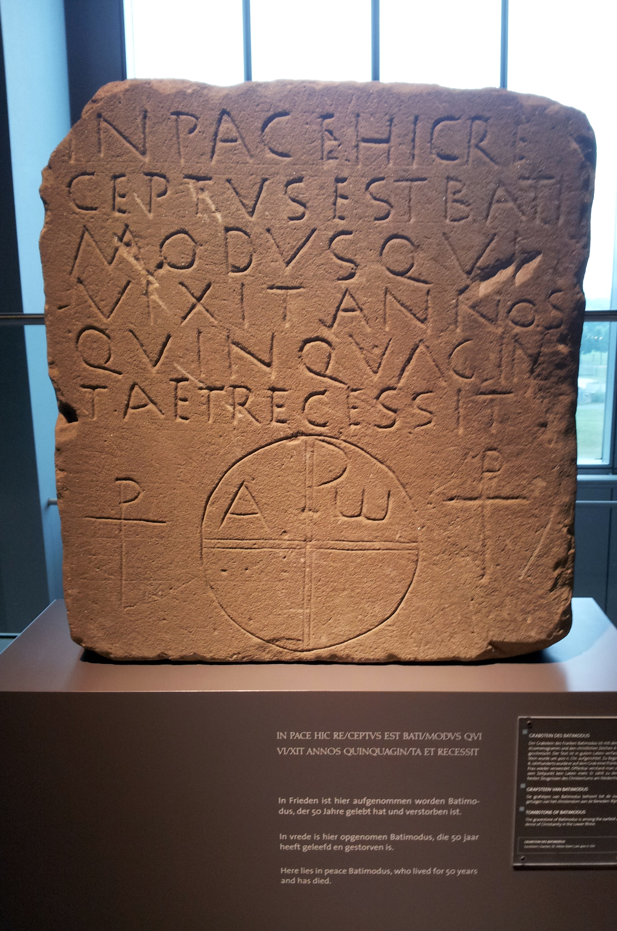 LVR-RömerMuseum Xanten - Exhibition